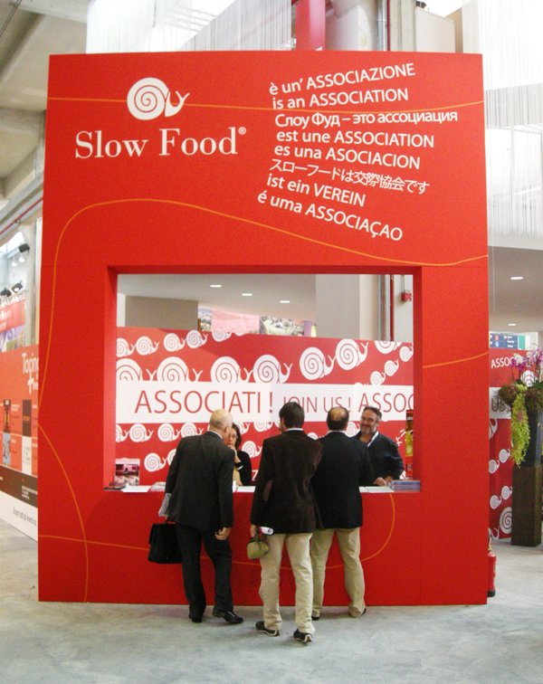 A Slow Food information stand at the Salone del Gusto 2008, Turin - Italy